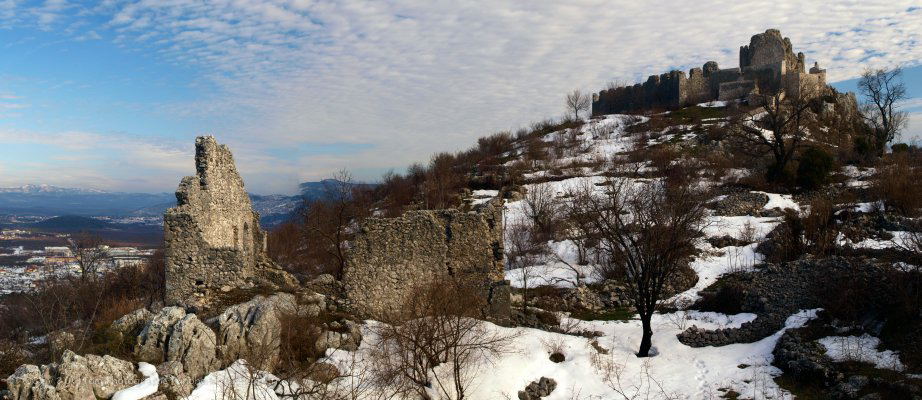 Ljubuški (Herzegovina) Herzog Stjepan castle (in ruins)